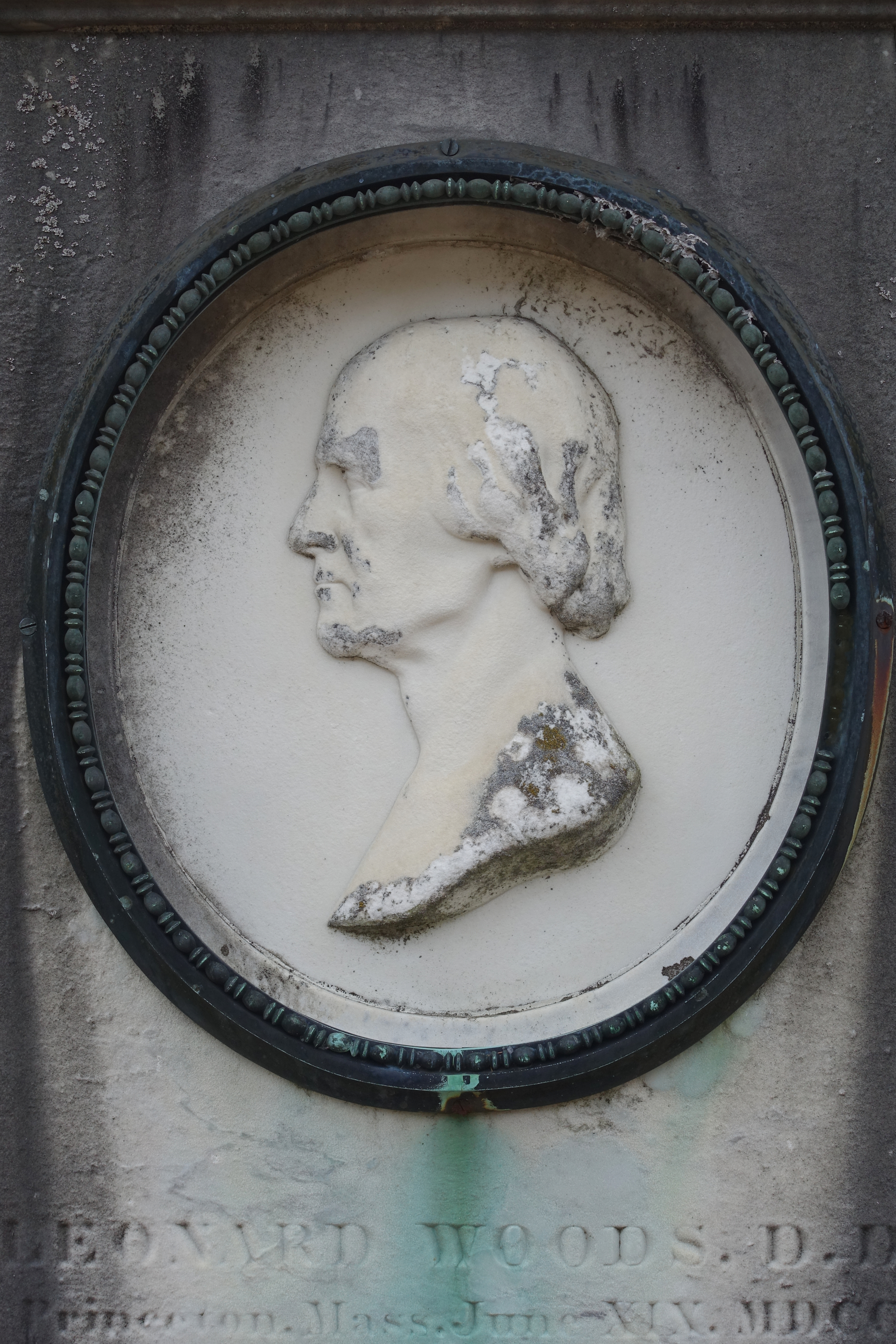 Chapel Cemetery - Phillips Academy Andover - Andover, Massachusetts, USA.